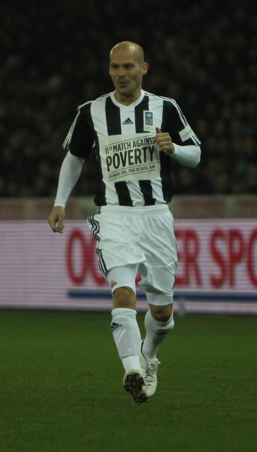 Football against poverty 2014 - Fredrik Ljungberg